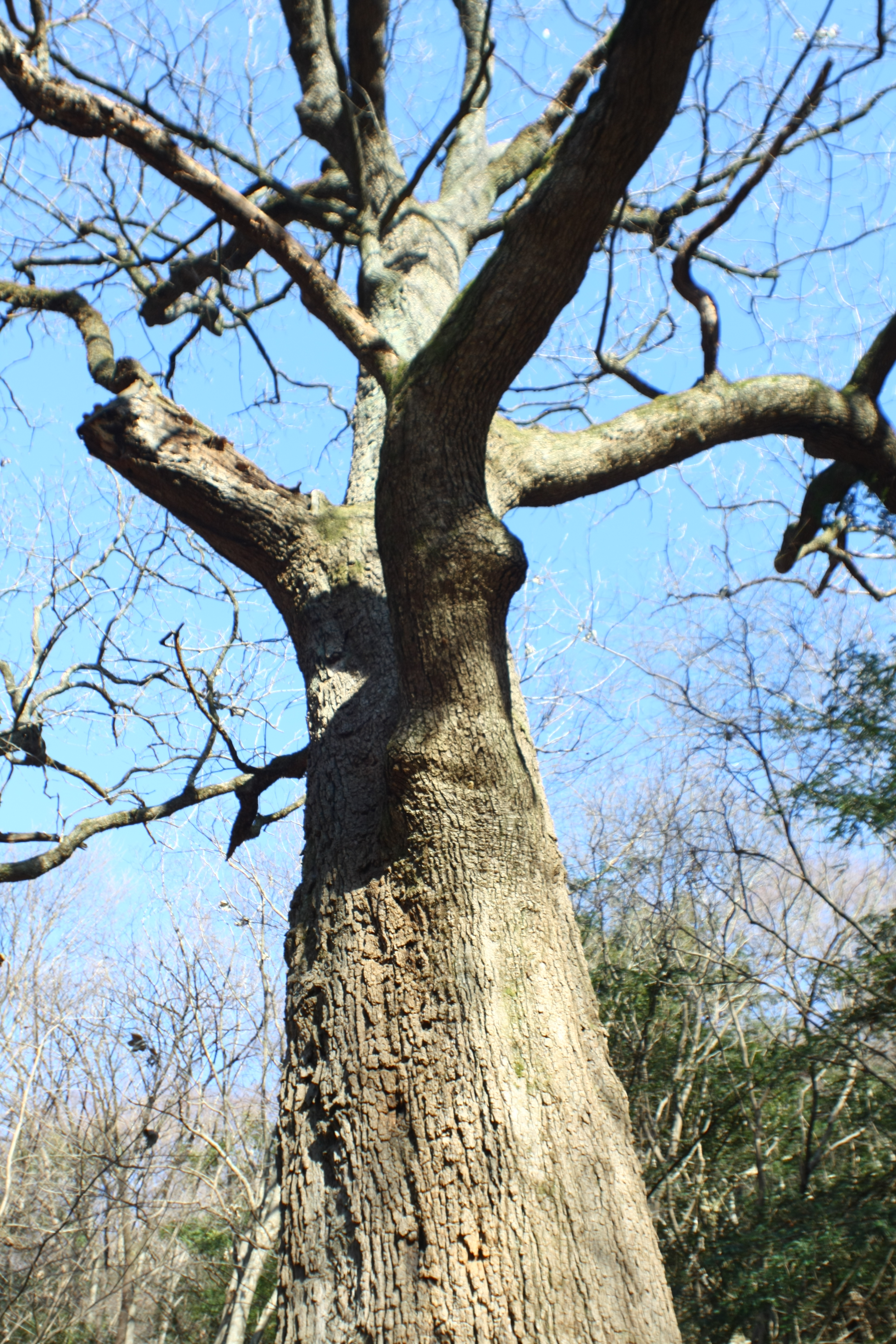 Quercus aliena in Jangseong, Korea